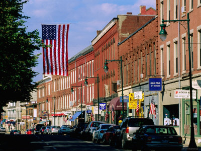 Downtown view of Rockland Maine